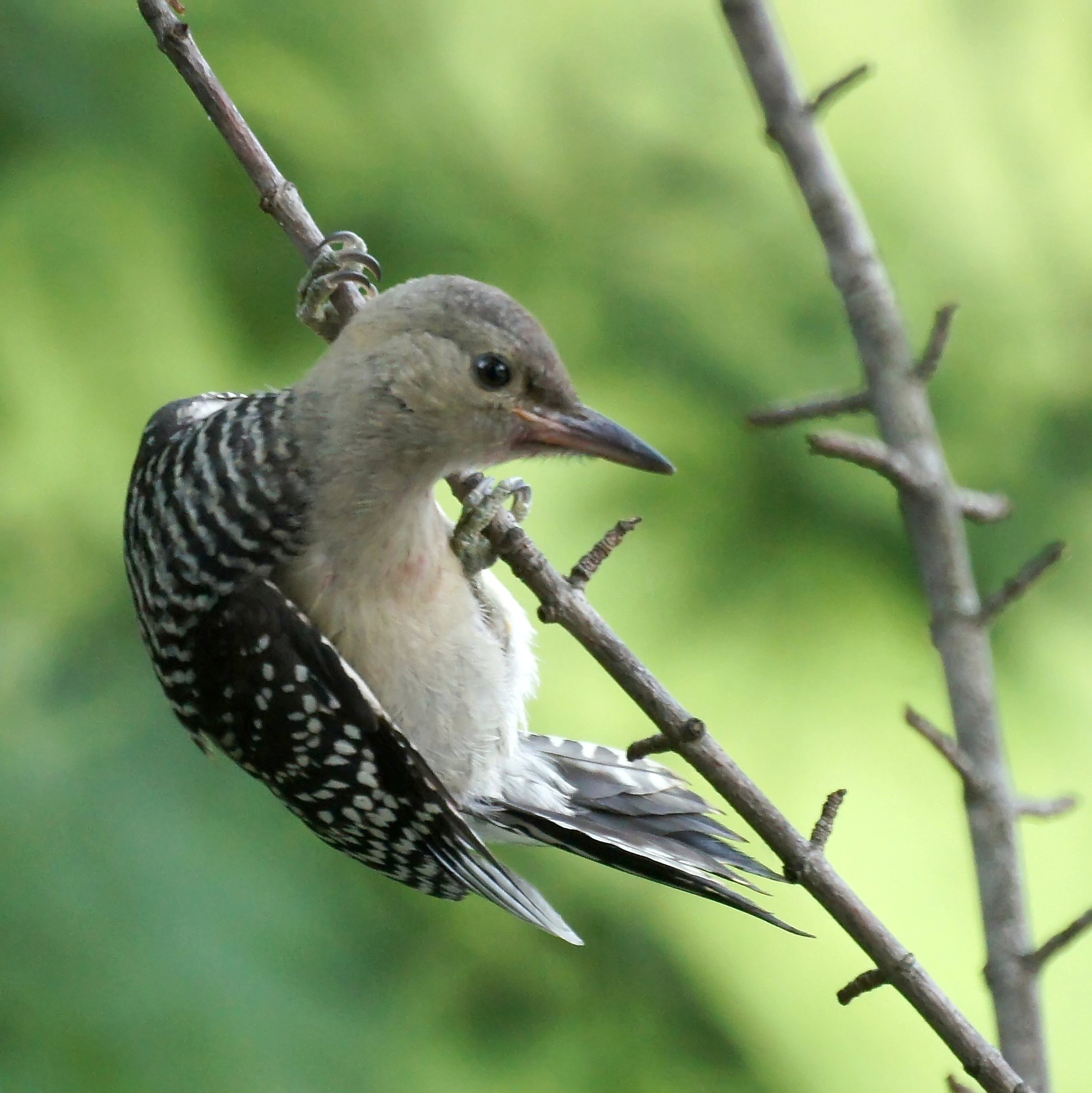 Baby Red Bellied Woodpecker